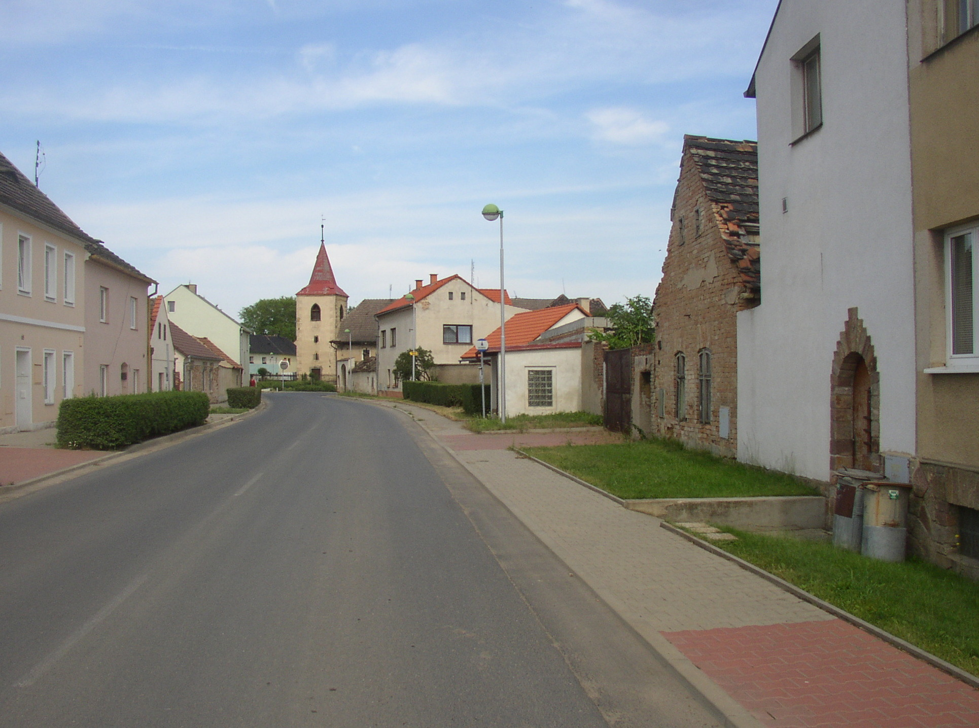 Mlékojedy, Litoměřice District, Czech Republic. A view along main street from west towards village square.